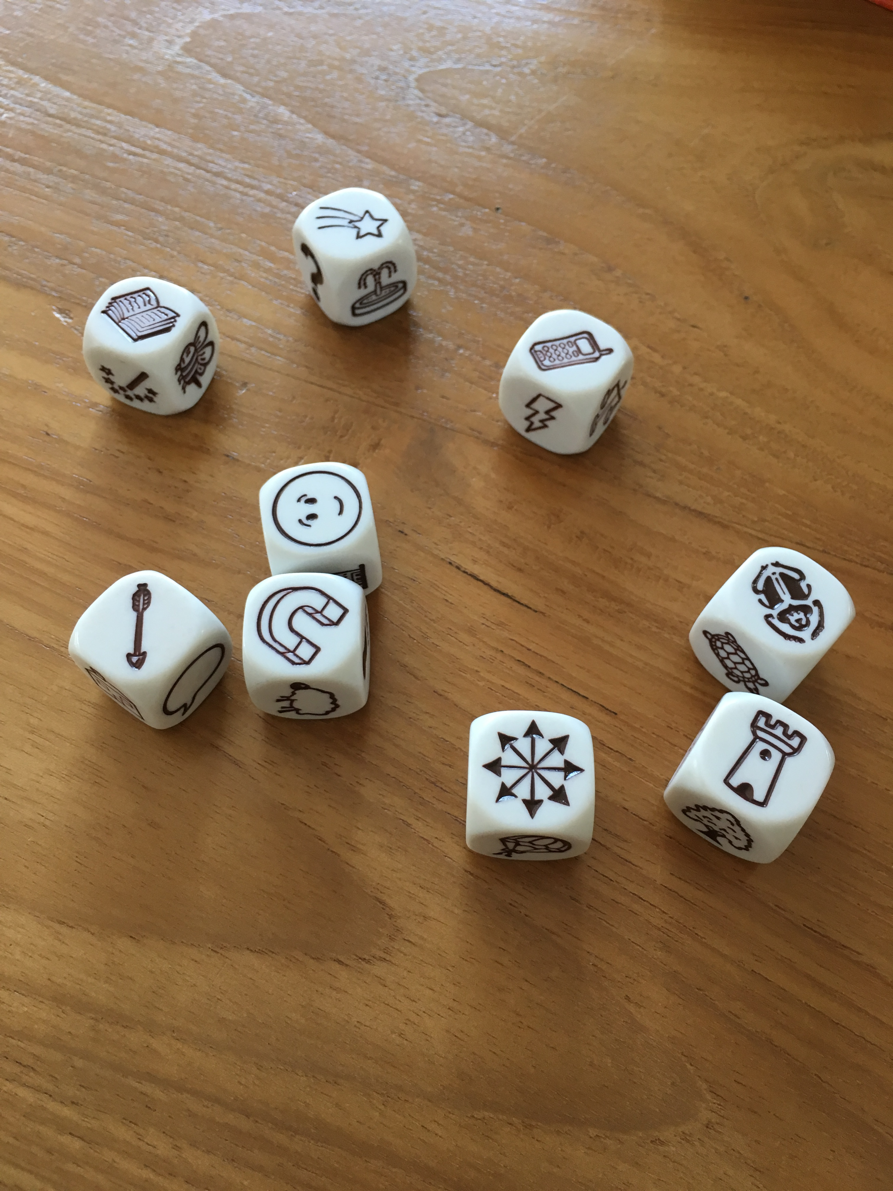 Story Cubes